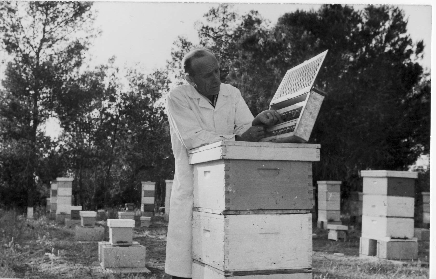 queen cells built on artificial caps (cells) in a cage that lets bees enter to nurse the queens larvae, but exclude the queen. I. Ferman at Mikve-Israel apiary